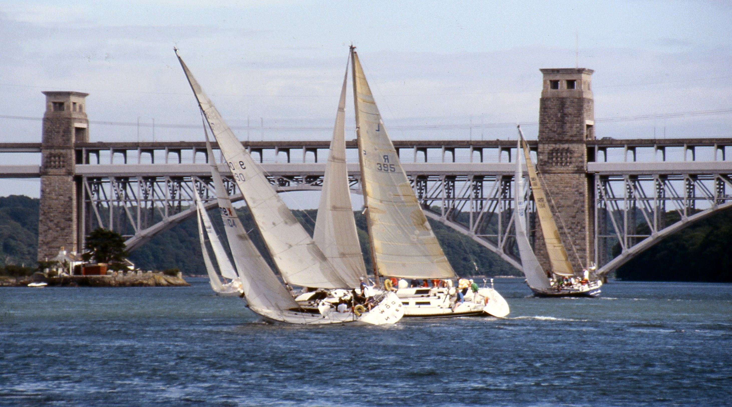 Tacking near Britannia Bridge - Round Anglesey race Author: User:Velela. Location: Nelson statue near Llanfair Church Source: Personal photograph taken by Author August 1998 Description: Yachts tacking up the Menai Strait at the start of the annual round Anglesey race Technical data: Pentax camera.